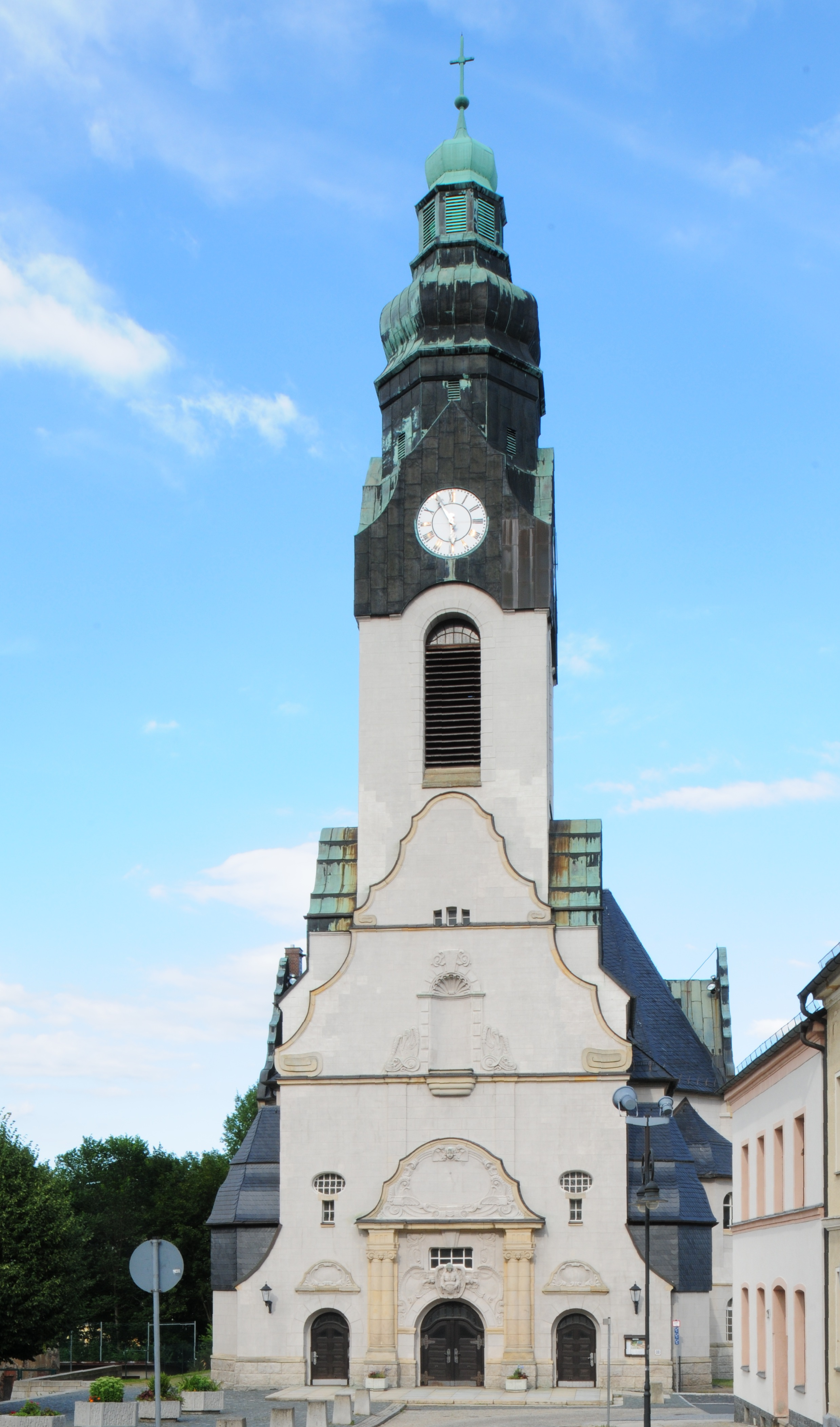 Adorf/Vogtland, Protestant church St Michael (district Vogtlandkreis, Free State of Saxony, Germany)